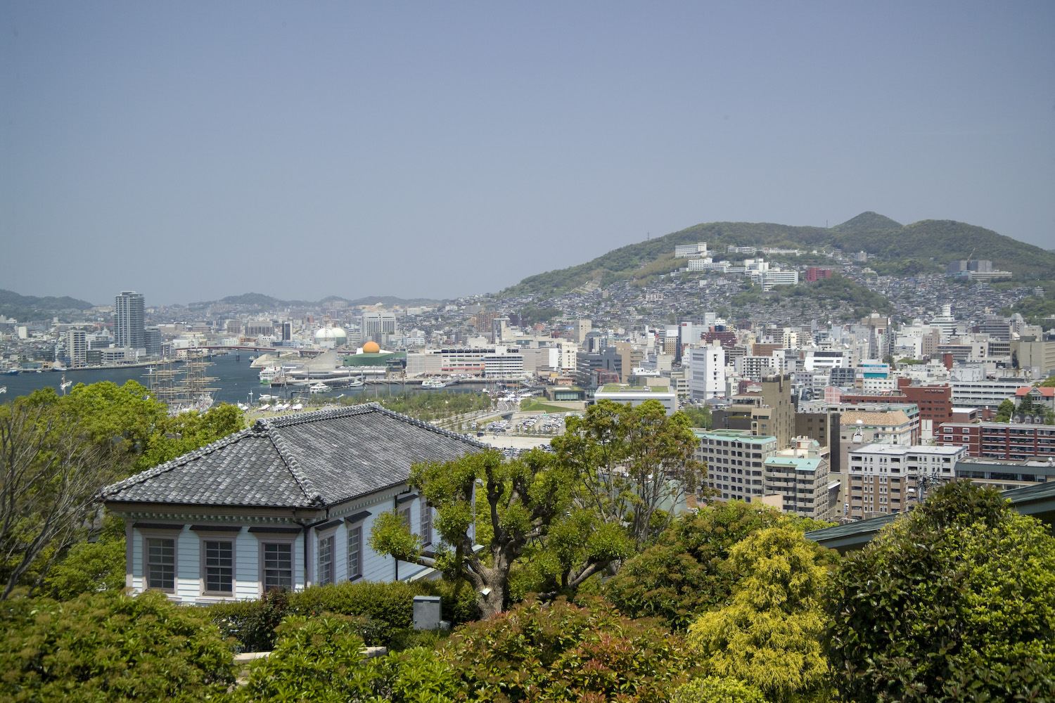 City view from Glover Garden.